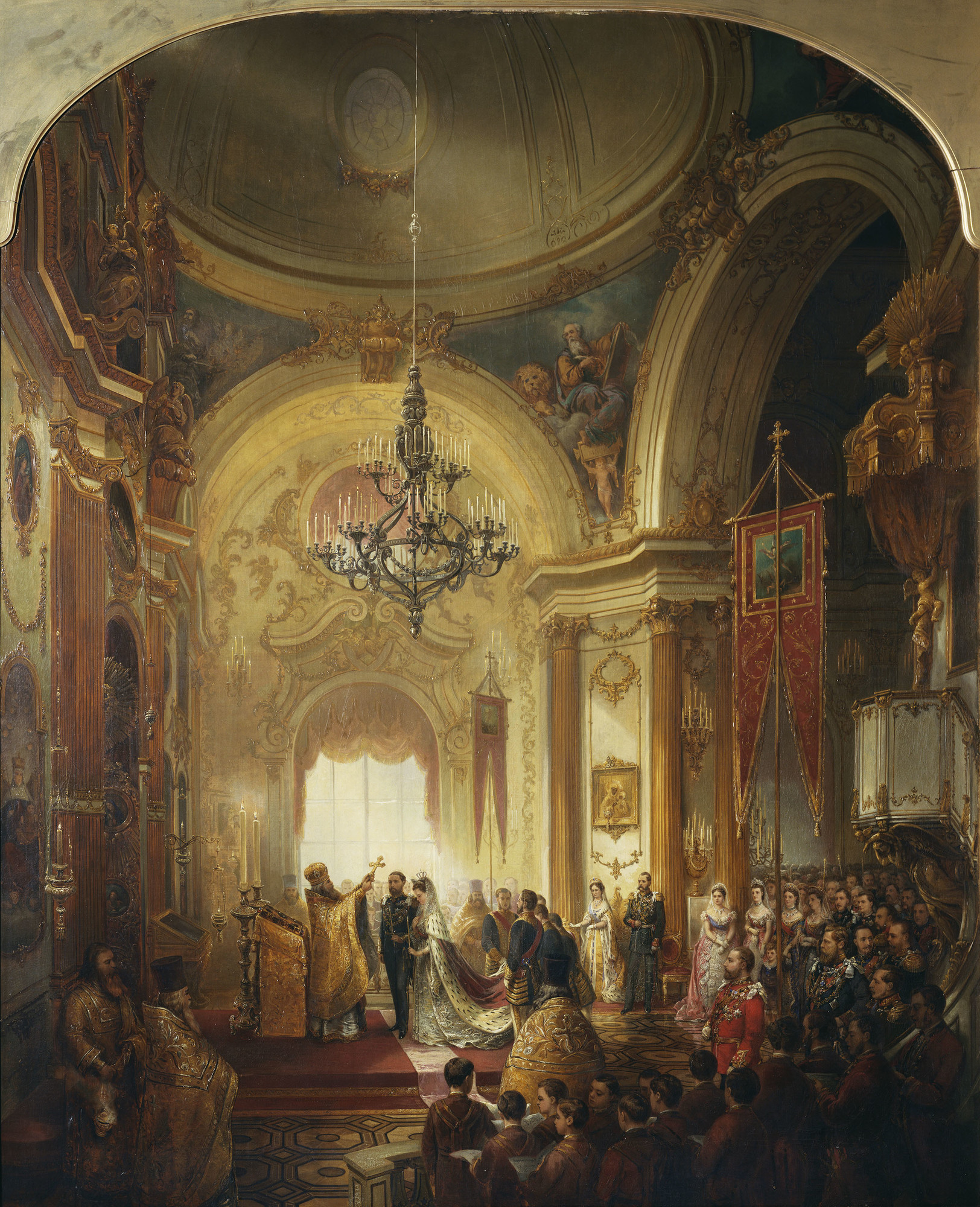 The Marriage of Prince Alfred, Duke of Edinburgh, 23 January 1874 1874-75 Oil on canvas | 168.4 x 138.5 cm (support, canvas/panel/str external) | RCIN 404476 Description Alfred, Duke of Edinburgh, was the fourth child of Queen Victoria and Prince Albert. He married the Grand Duchess Marie, daughter of Tsar Alexander II of Russia, in the Imperial Chapel of the Winter Palace in St Petersburg on 23 January 1874. In the painting the bride and bridegroom are holding candles and the Metropolitan Archbishop, who conducted the ceremony, holds a cross above them. He is standing in front of a lectern on which are the Gospels in a jewelled cover. The bride’s train is held by six Chamberlains. The Tsar and Tsarina are standing beyond the chamberlains. The choir can be seen in the foreground on the right. There were both Greek and English ceremonies and Chevalier produced sketches depicting key moments of the occasion which were sent to Queen Victoria. The Duke of Edinburgh wrote to his mother: ’I hope to [be] able to send with this by tomorrows messenger two sketches by Chevalier & in one of the Greek ceremony by using the little additional slips you will be able to follow the different parts of the service’. Chevalier’s travelling expenses for the 42 days he was away from England were paid for by Queen Victoria, the Duke of Edinburgh and the Prince of Wales. The painting was exhibited at the Royal Academy in 1875. Provenance Commissioned by Queen Victoria